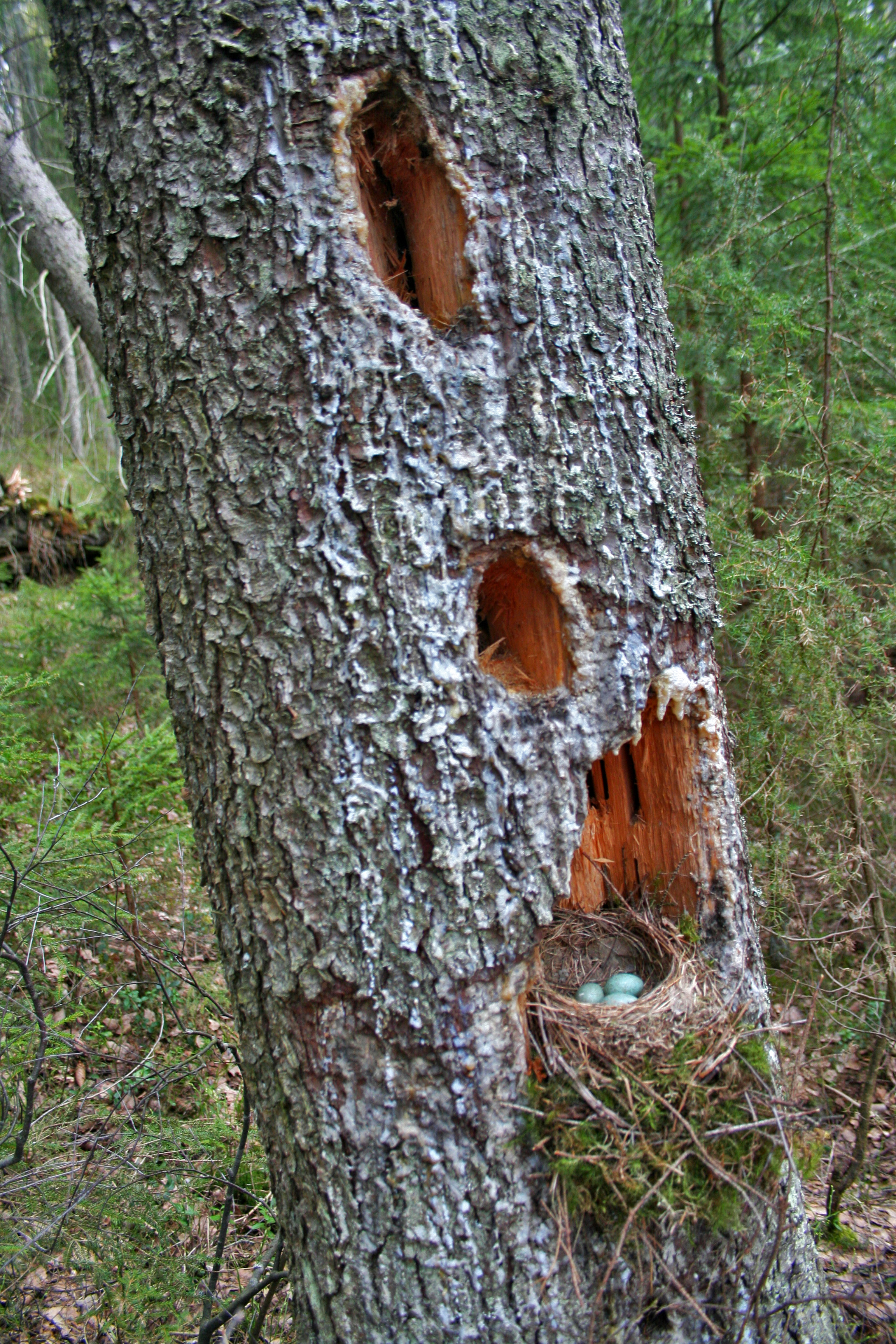 Bird nest partly in a hollow tree, Espoo, Finland, 2014